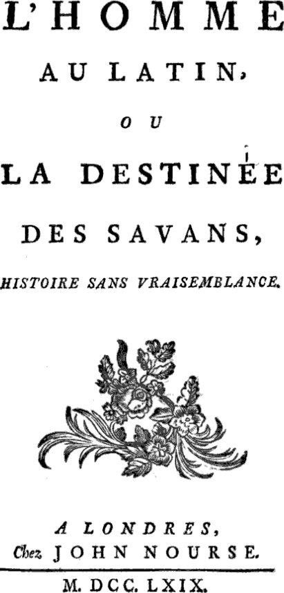 Pierre-Louis Siret (1745-1798), French grammarian and philologist.